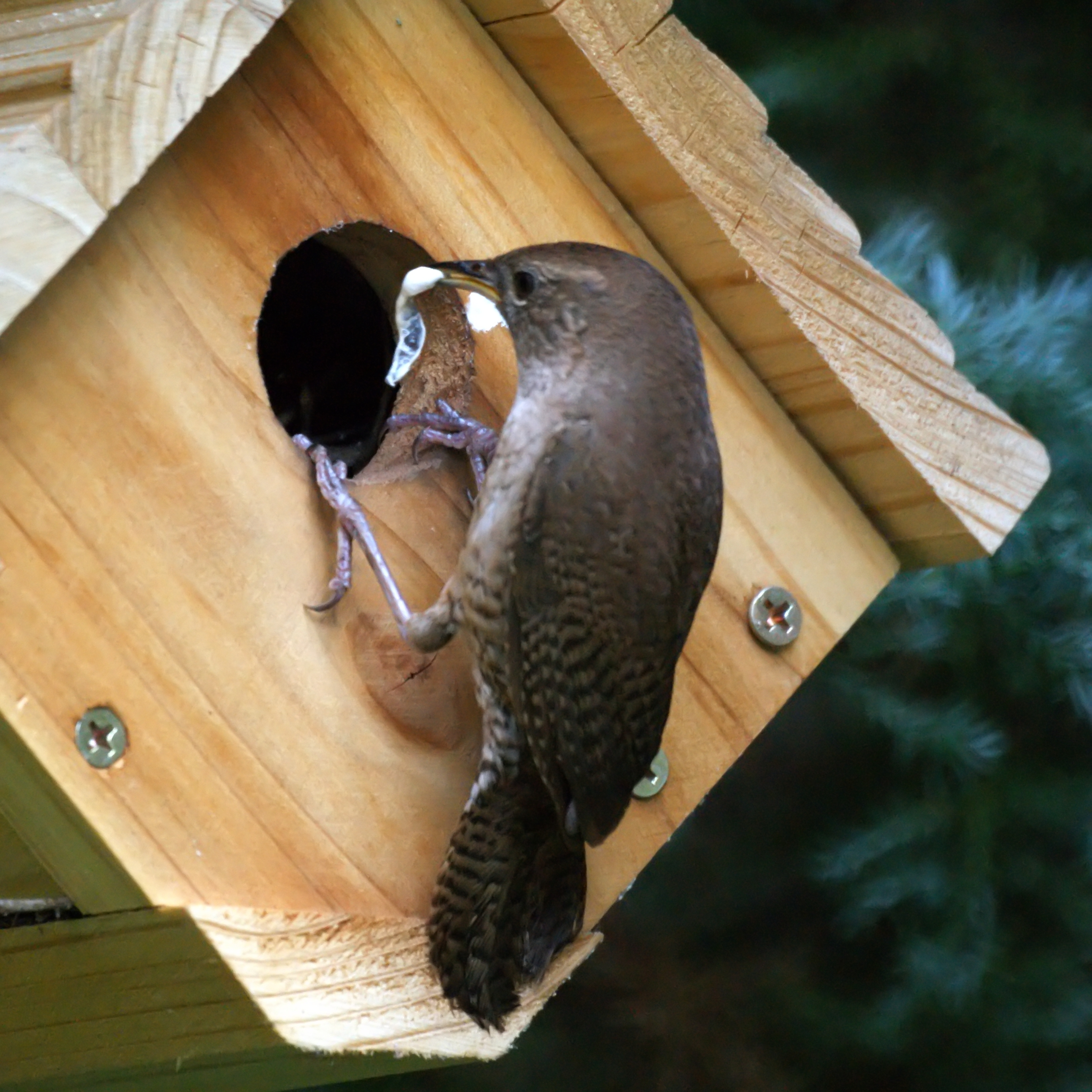 House Wren with Fecal Sac (Cleaning the nest)